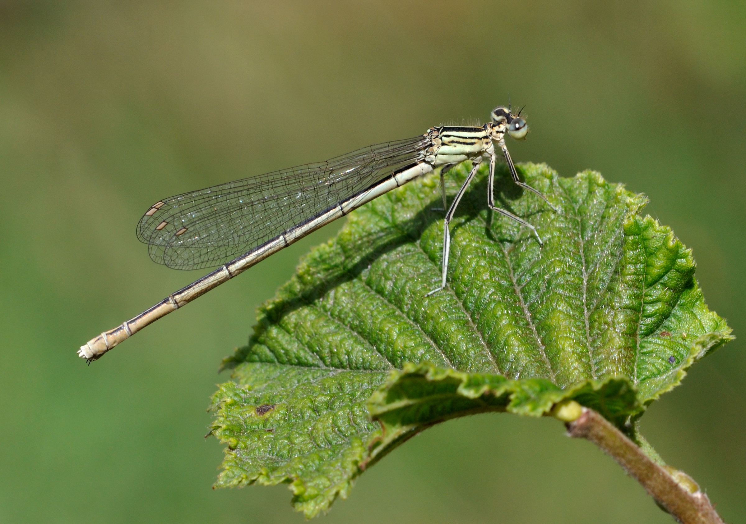 Female White-legged Damselfly (Platycnemis pennipes) near the old airstrip, Frankfurt, Germany.